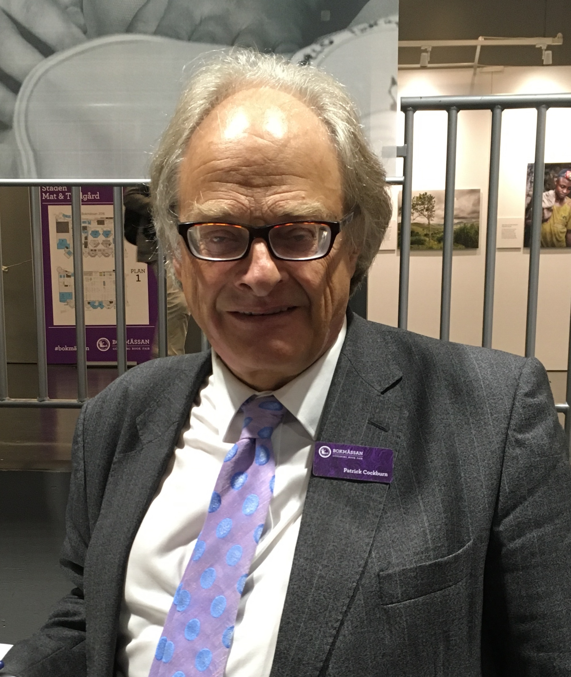 Patrick Cockburn signing books at the Gothenburg book fair in 2016.